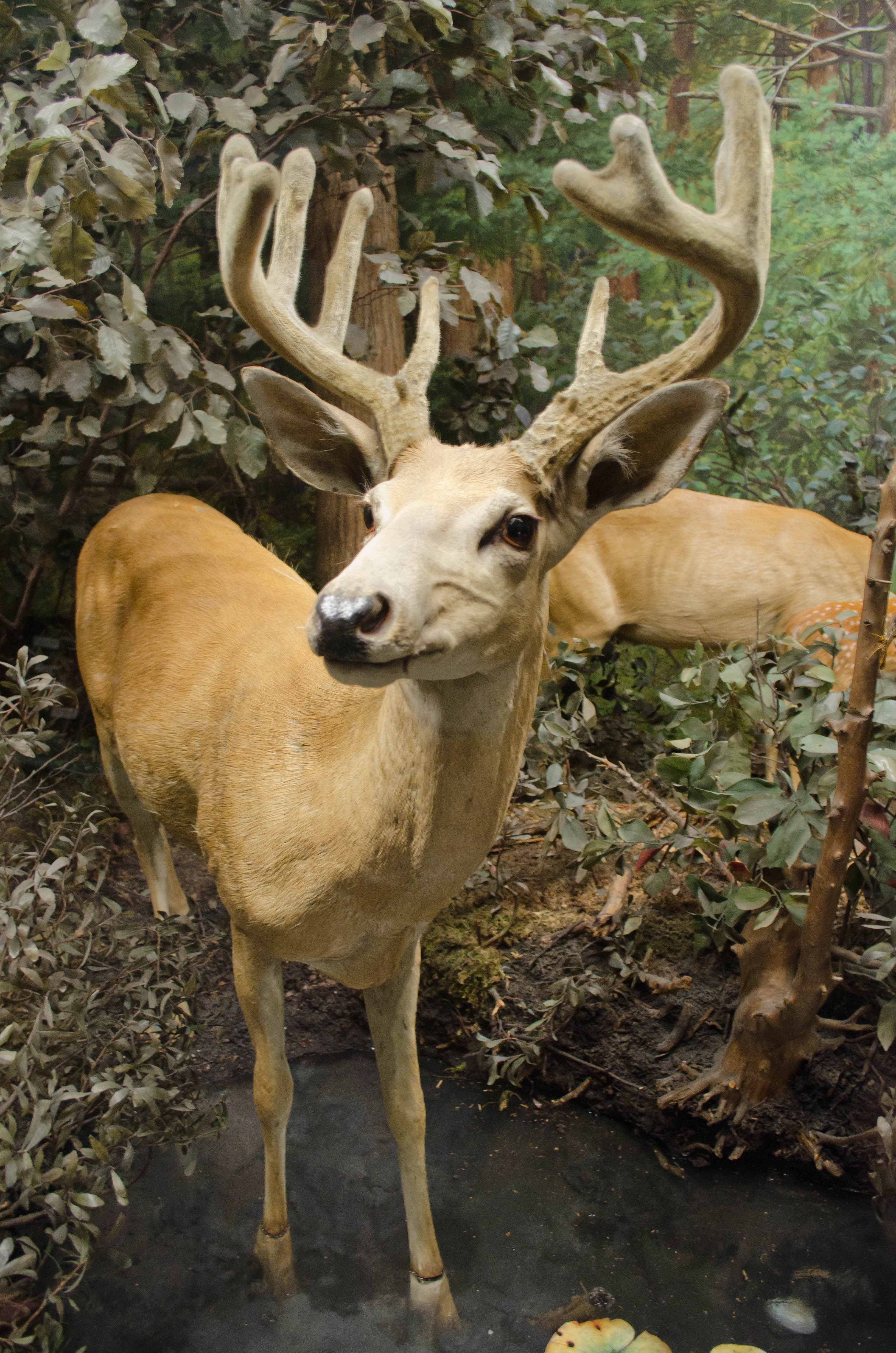 White-tailed deer in summer - composition at Field Museum (Chicago). Author - Carl Akeley (1864-1926)